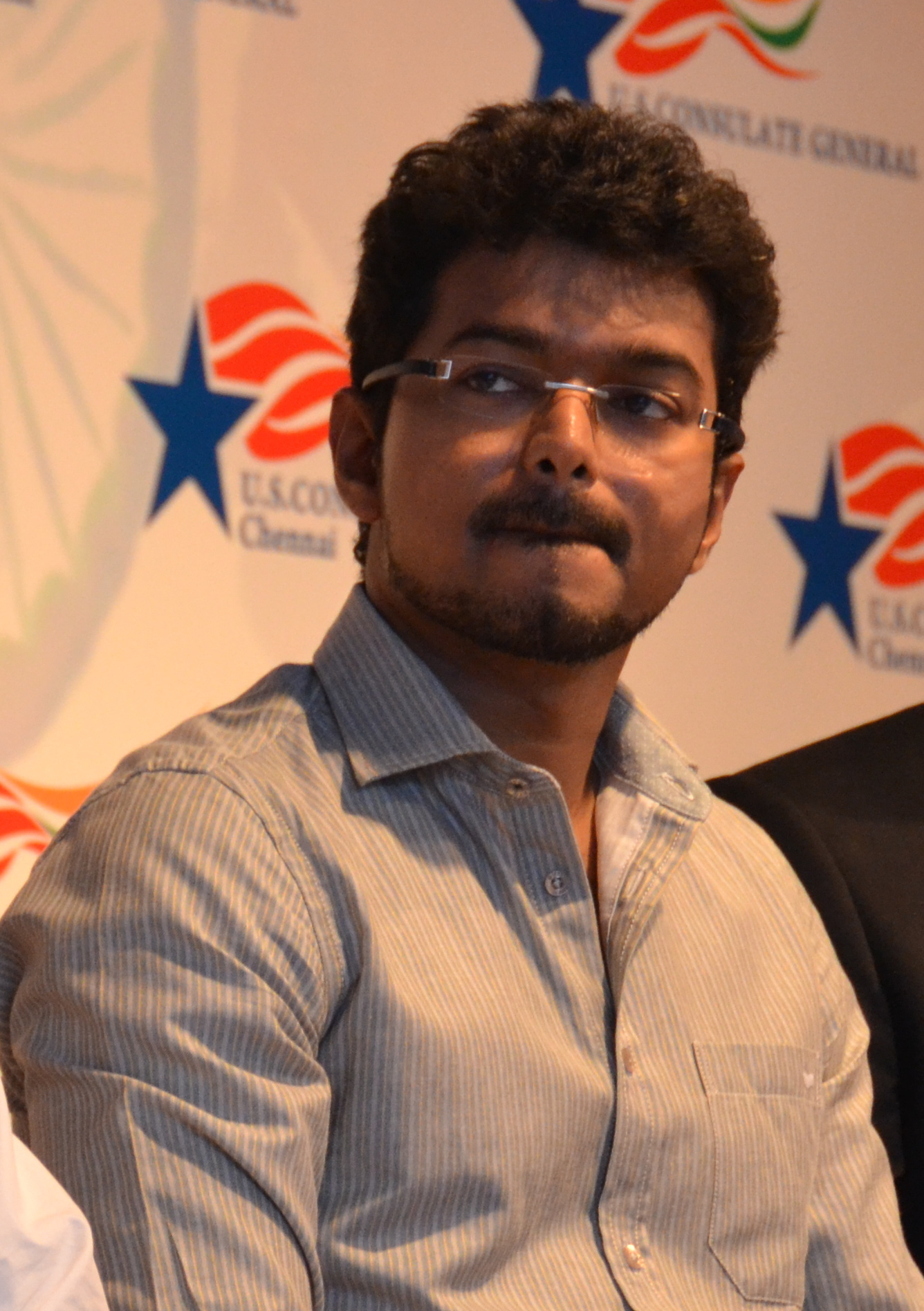 Tamil Film actor Vijay Celebrating World Environment Day at the U.S. Consulate Chennai